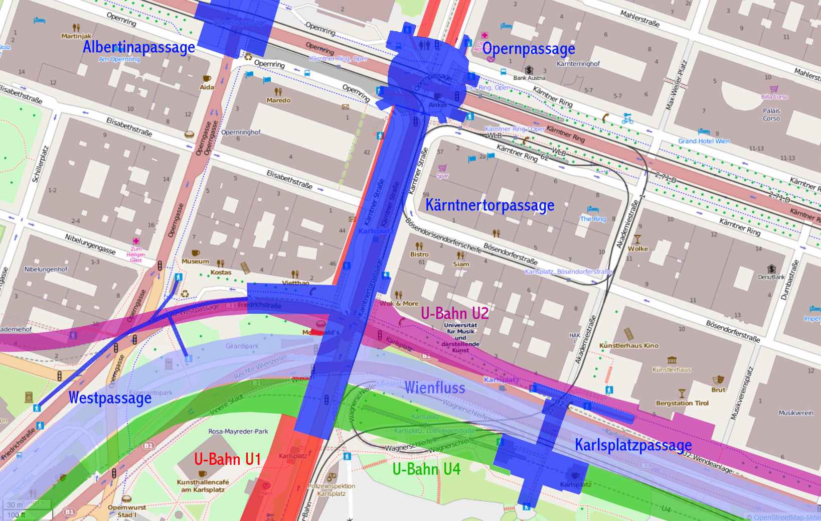 Subterrestrial structures in the area of Karlsplatz in Vienna 1